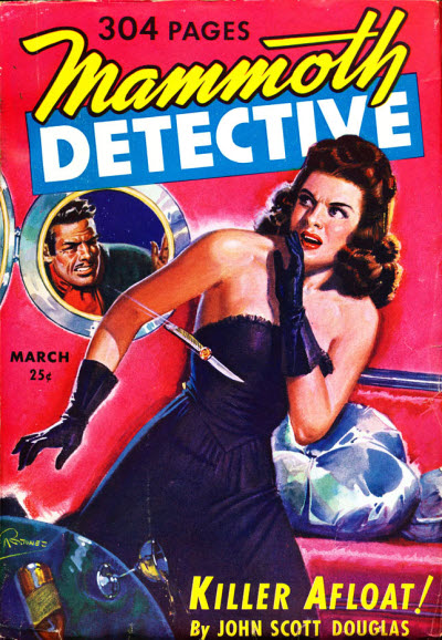 Mammoth Detective, March 1943